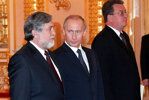 ALEXANDER HALL, GRAND KREMLIN PALACE. Presentation of letters of credentials. To the right of the President is Ambassador of Venezuela Alexis Rafael Navarro Rojas.